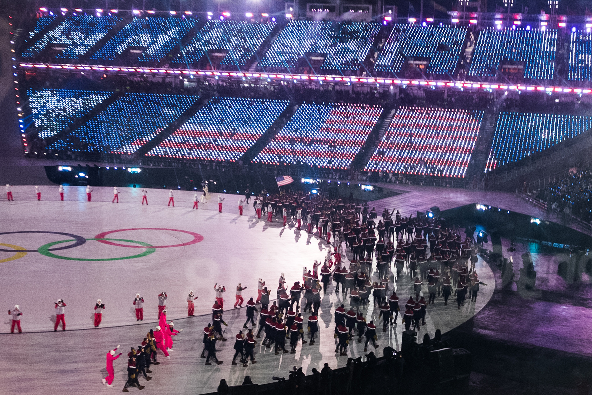 The United States Olympic Team parades during the opening ceremonies of the 2018 Winter Olympics at the Pyeongchang Olympic Stadium, Friday, February 9, 2018, in Pyeongchang, South Korea. (Official White House Photo by D. Myles Cullen)